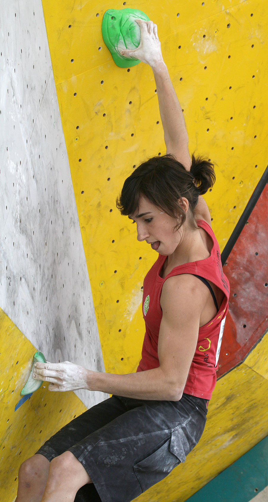 Juliane Wurm during the semi-finals at the IFSC Boulder Worldcup Vienna 2010.